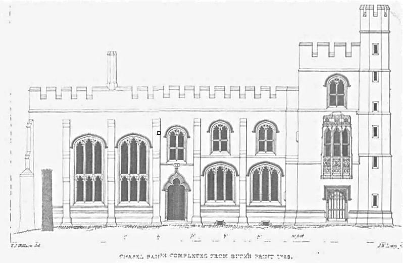 Alnwick Tower and east wing of Old Bishop's Palace re-drawn by E. J. Wison in 1848